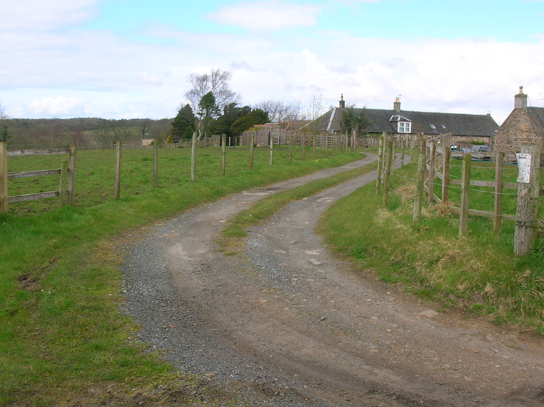 The Old Drivway to Fergushill House Fergushill, East Ayrshire, Scotland